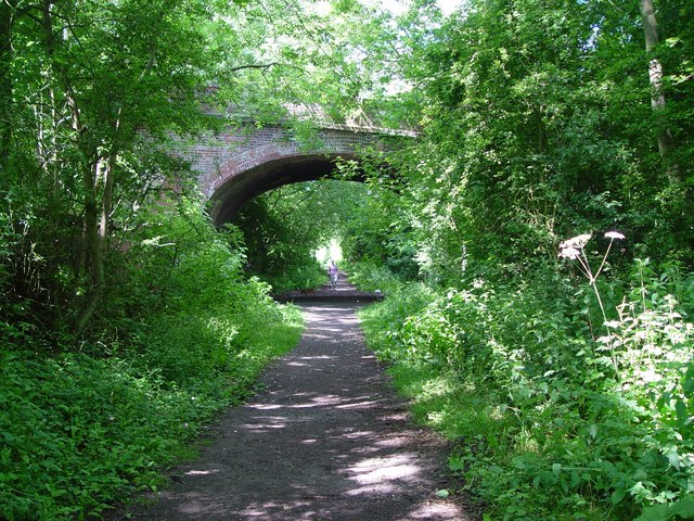 The Hudson Way, Market Weighton, East Riding of Yorkshire, England.The western end of the Hudson Way, near Market Weighton, has an abundance of wild flowers which are at their best mid June to mid July, see 544586. The photograph also shows a road bridge carrying a c-road across the disused line. The whole of the walk from Weighton to Beverley is a delightful leg-stretch.